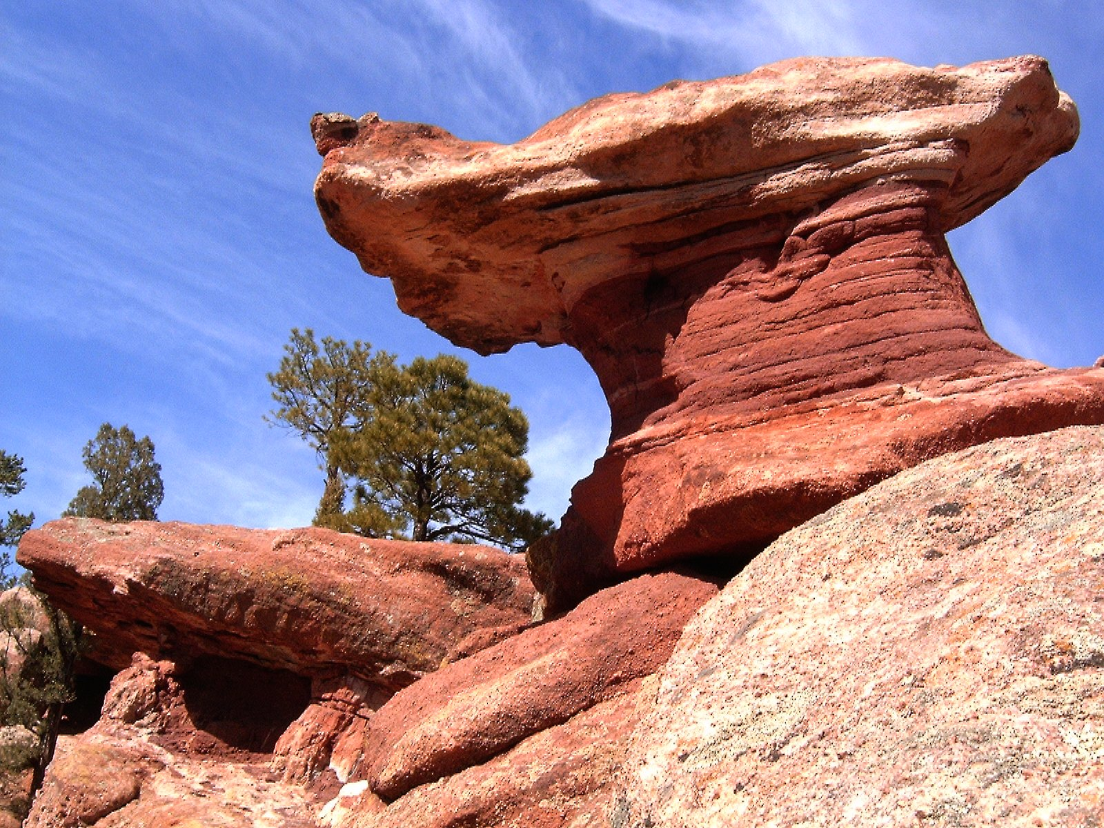 sandstone formation in "garden of the gods", Colorado; GIMP-improved